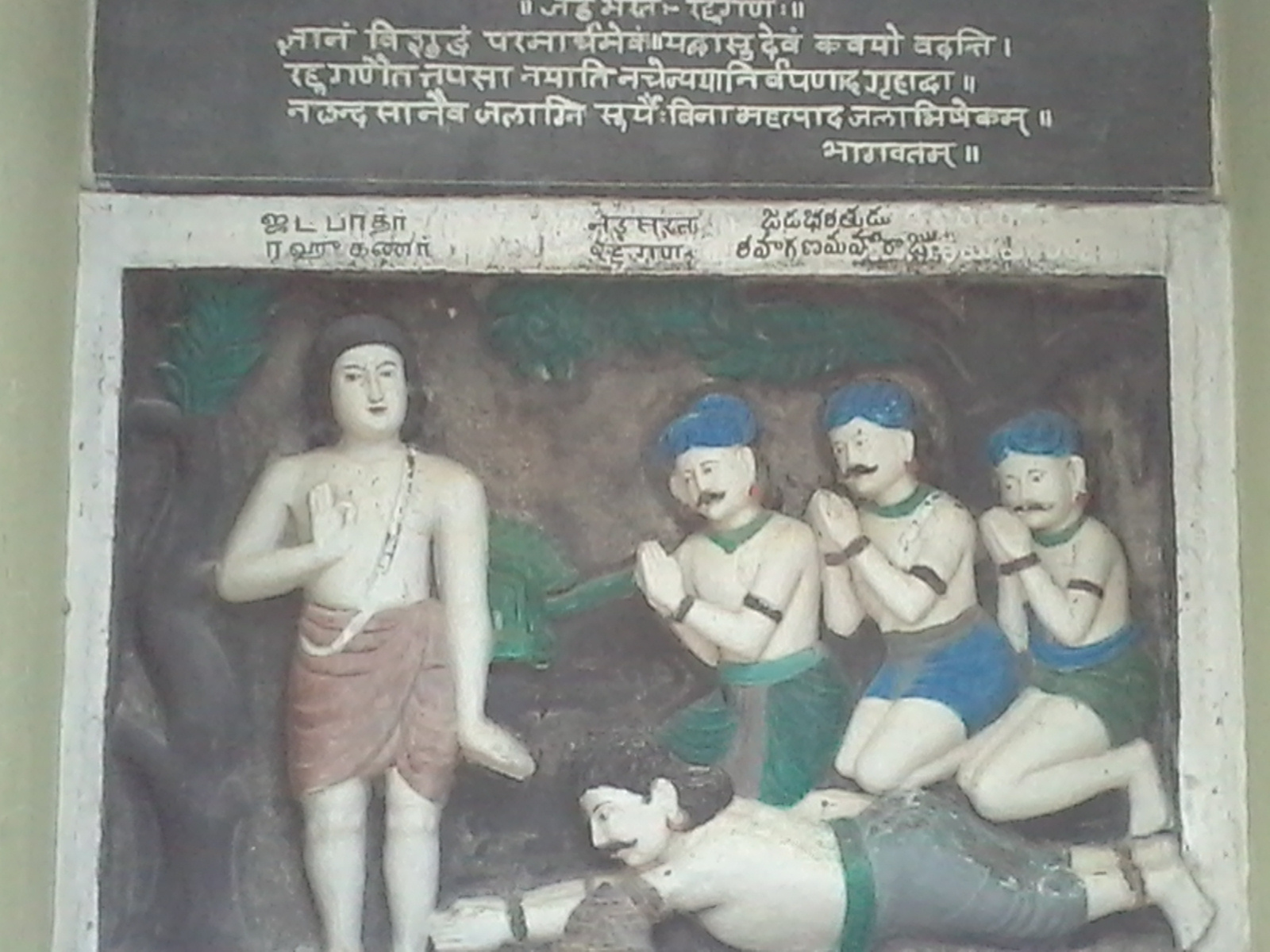 Ragugana worshiped Sage Jadabharata, Mobile Phone Photo ஜடபரதர்